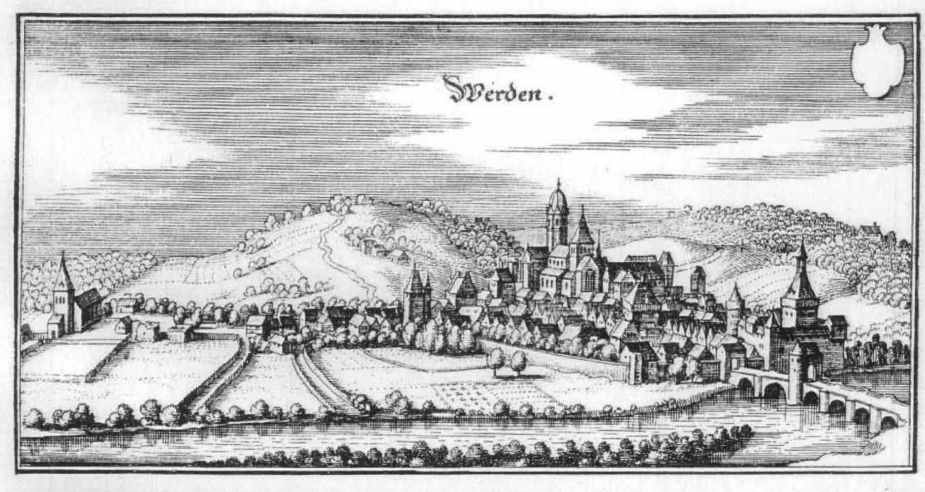 This is a scan of the historical document